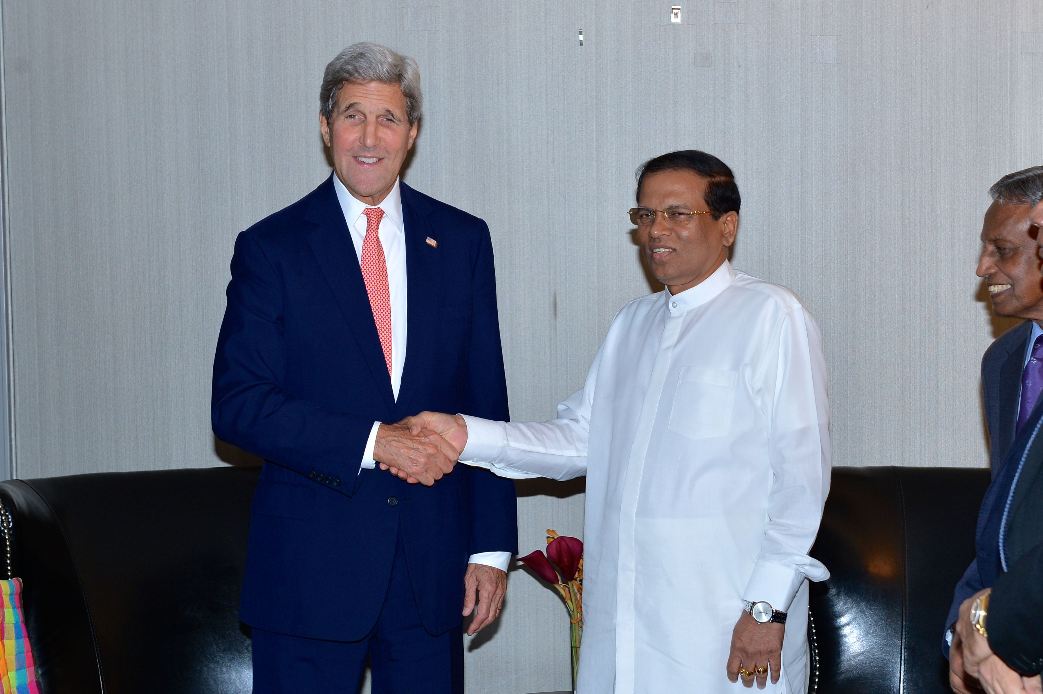 U.S. Secretary of State John Kerry shakes hands with Sri Lankan President Maithripala Sirisena before their bilateral meeting on the sidelines of the 70th Regular Session of the UN General Assembly in New York, New York, on September 27, 2015. [State Department photo/ Public Domain]